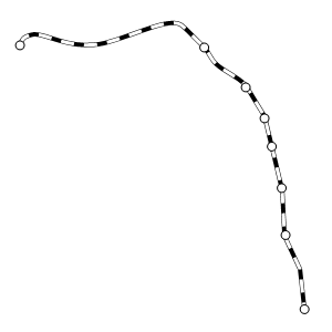 广深铁路示意图 Sketch map of Guang-Shen railway.